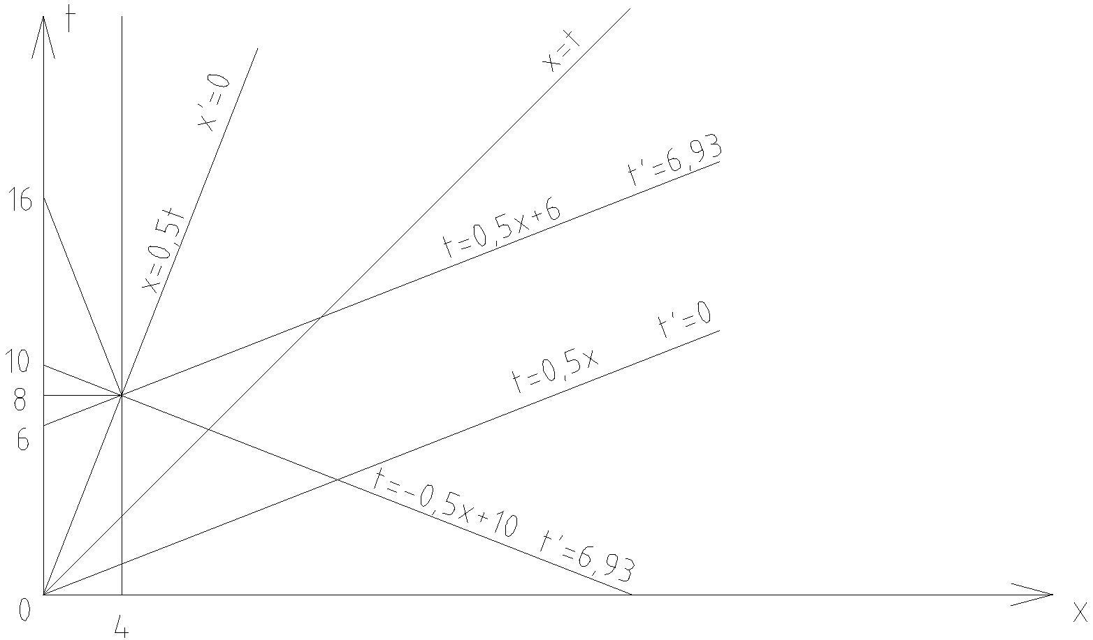 Graphics explaning twin paradox in relativity